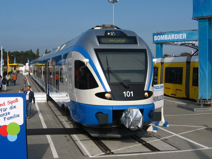 The european railroad industry is full of more or less stupid names. What the hell is a Coradia? Doesn't LINT sound rather stupid? Is the Desiro desirable or does it desire something, and if the latter, what? Isn't TALENT a rather pretentious name? Well, all of this pales in comparison to the Stadler Fast Light Innovative Regional Train. The train is the more-or-less successor to the Stadler GTW (Picture by DemoniacX), which has been quite successful for quite some time already. The FLIRT is, in fact, the first of the second generation of E/DMUs in Germany, with the typical list of completely low-floor thanks to technology on the roof, crash safety, yada yada yada. It has been running for a few years already now. Unlike it's competitors, it appears that you can't change the number of doors later, and I also haven't found any information about a diesel version. None of that really matters, though, since unlike the competition, it offers nice, large windows, making for a much nicer interior. This one here is going to Algeria, and is equipped with technology for 25 kV 50 Hz electrification, as well as a destination sign that does not help me the least, but looks very interesting nevertheless.